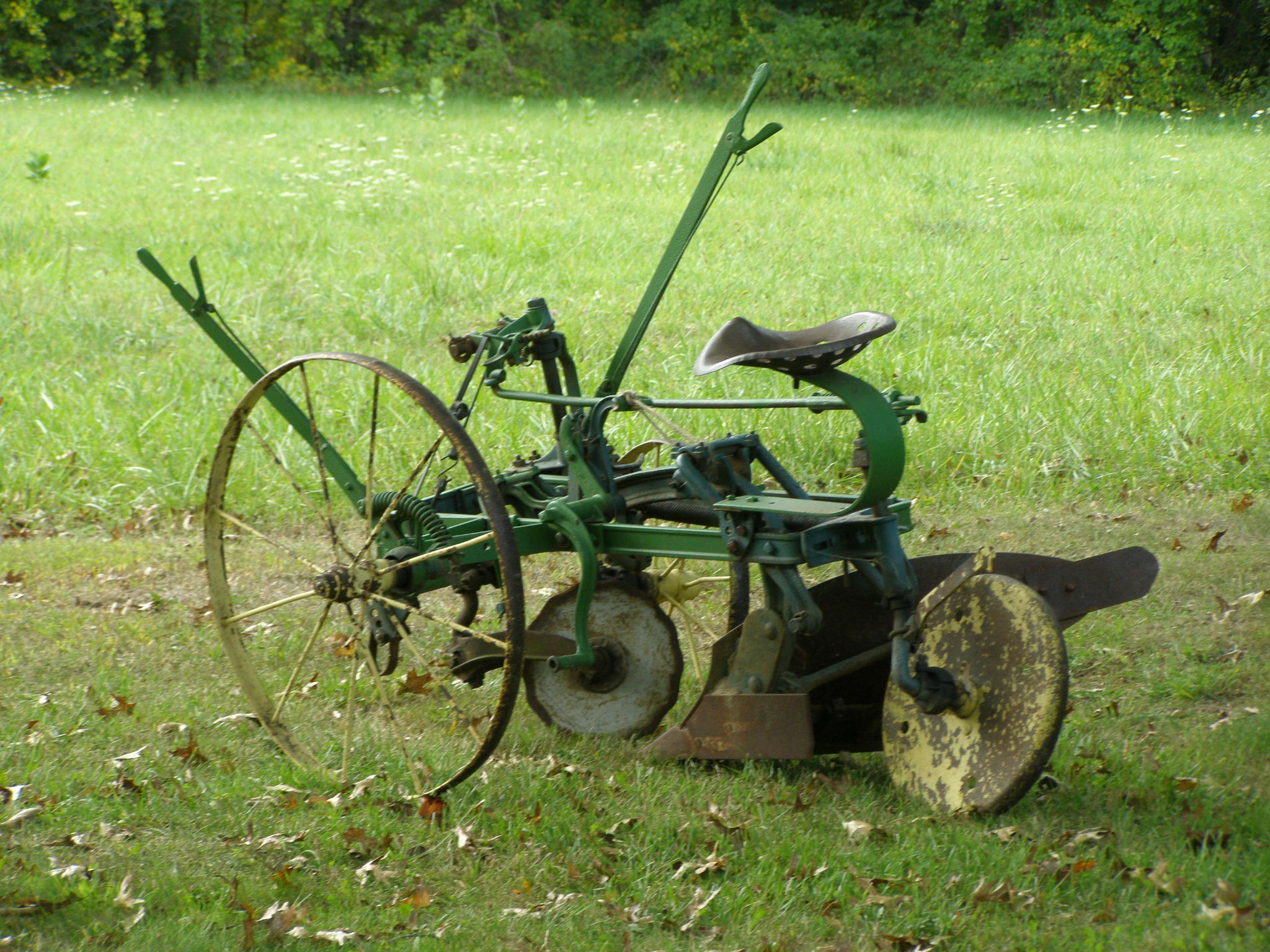 Antique plough at the Duneland Harvest Festival, Indiana Dunes National Lakeshore, Porter, Indiana.